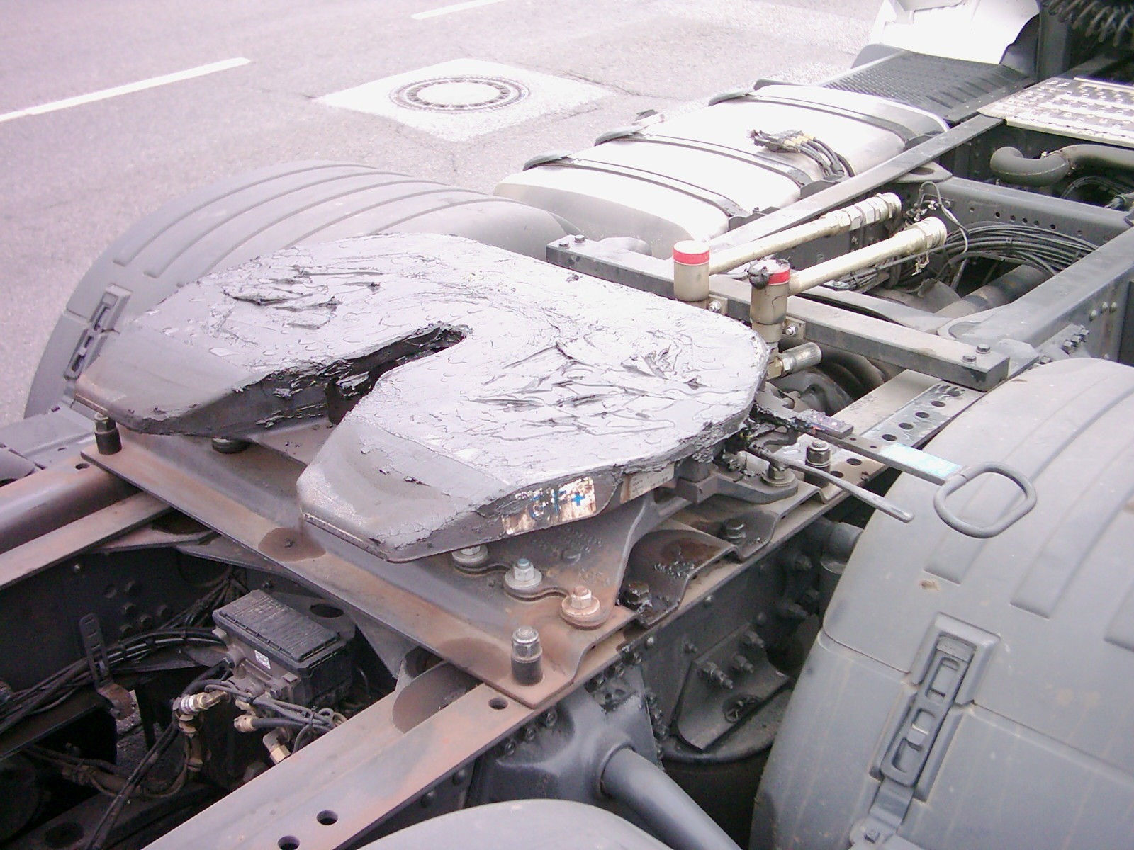 Fifth wheel.